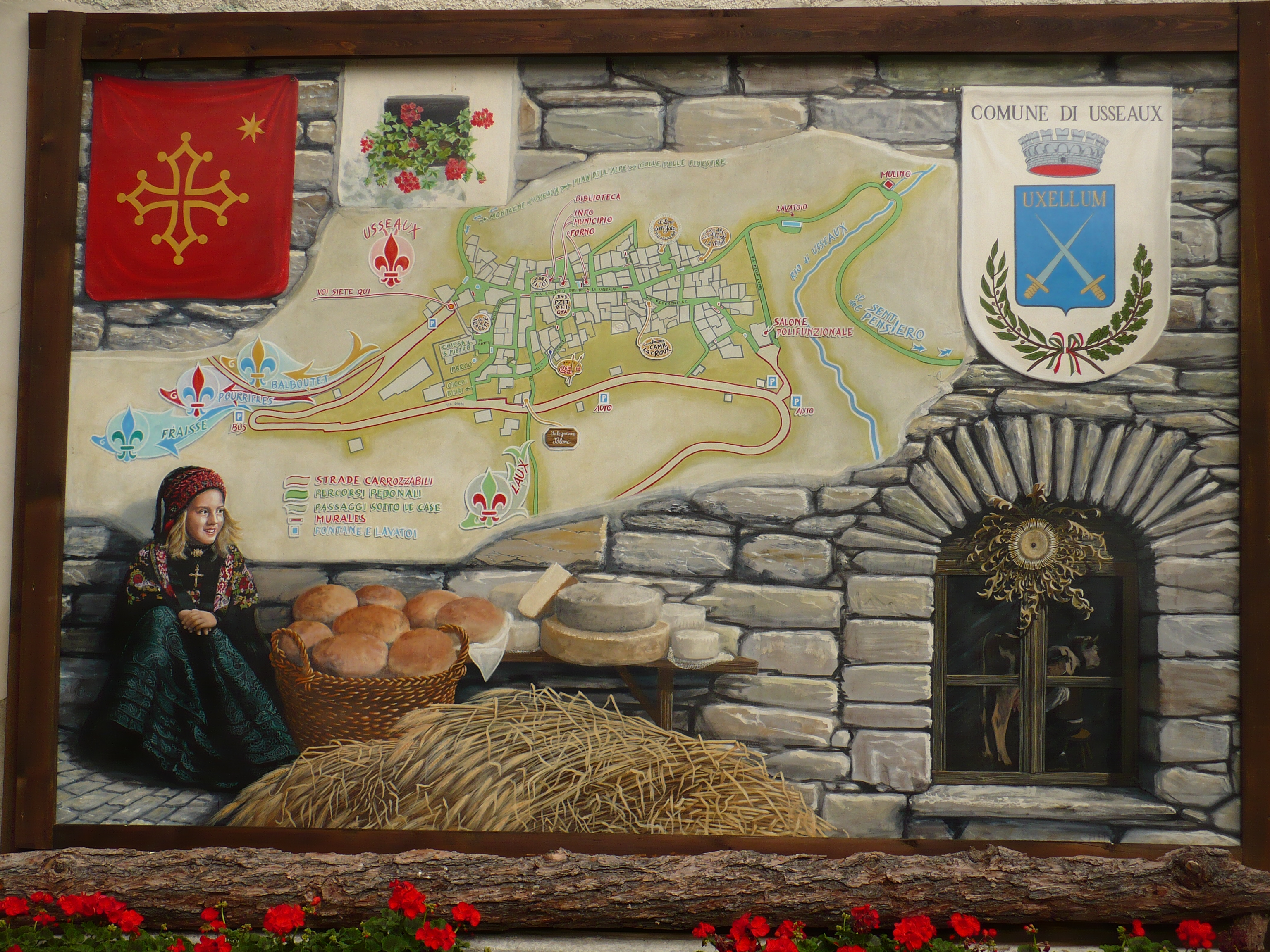 Usseaux - Val Chisone - Province of Turin - Italy